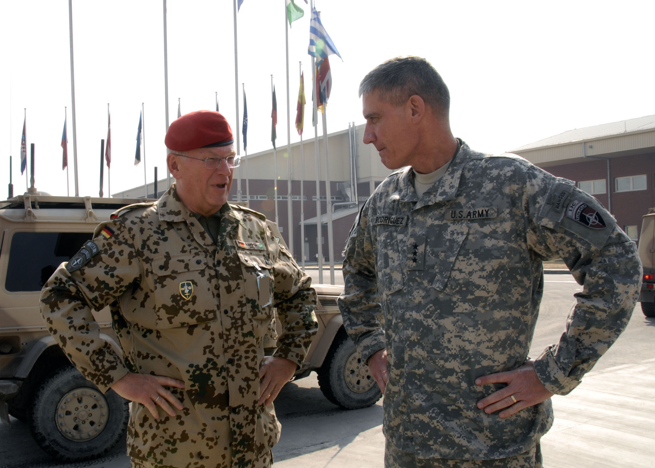 On October 29, 2009 ISAF Joint Command Commander, Lt. Gen. David M. Rodriguez, greets German Gen. Egon Ramms during a visit to ISAF Joint Command at Kabul International Airport in Kabul, Afghanistan. (ISAF Photo)